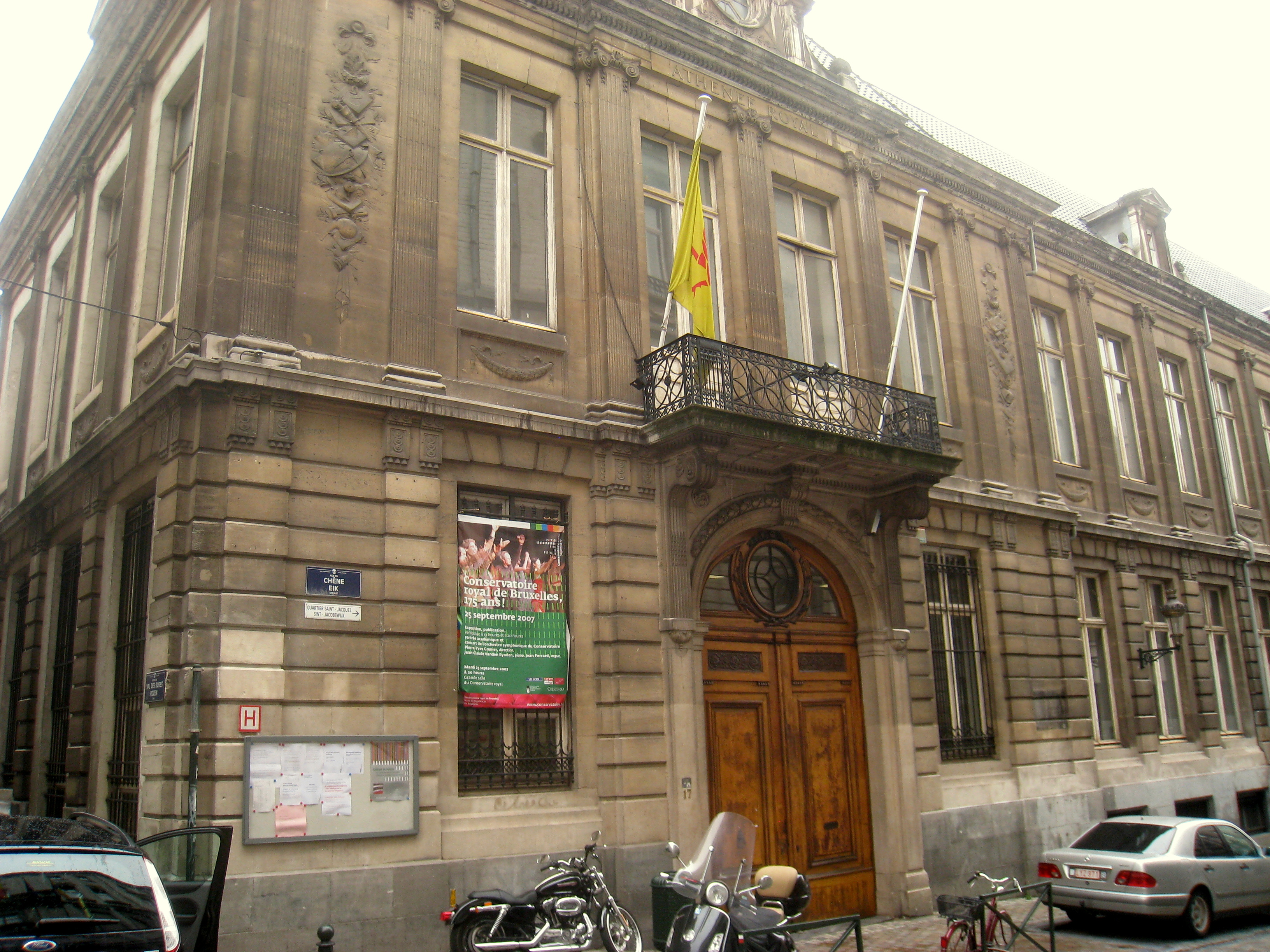 Royal Conservatory, Brussels, Belgium.